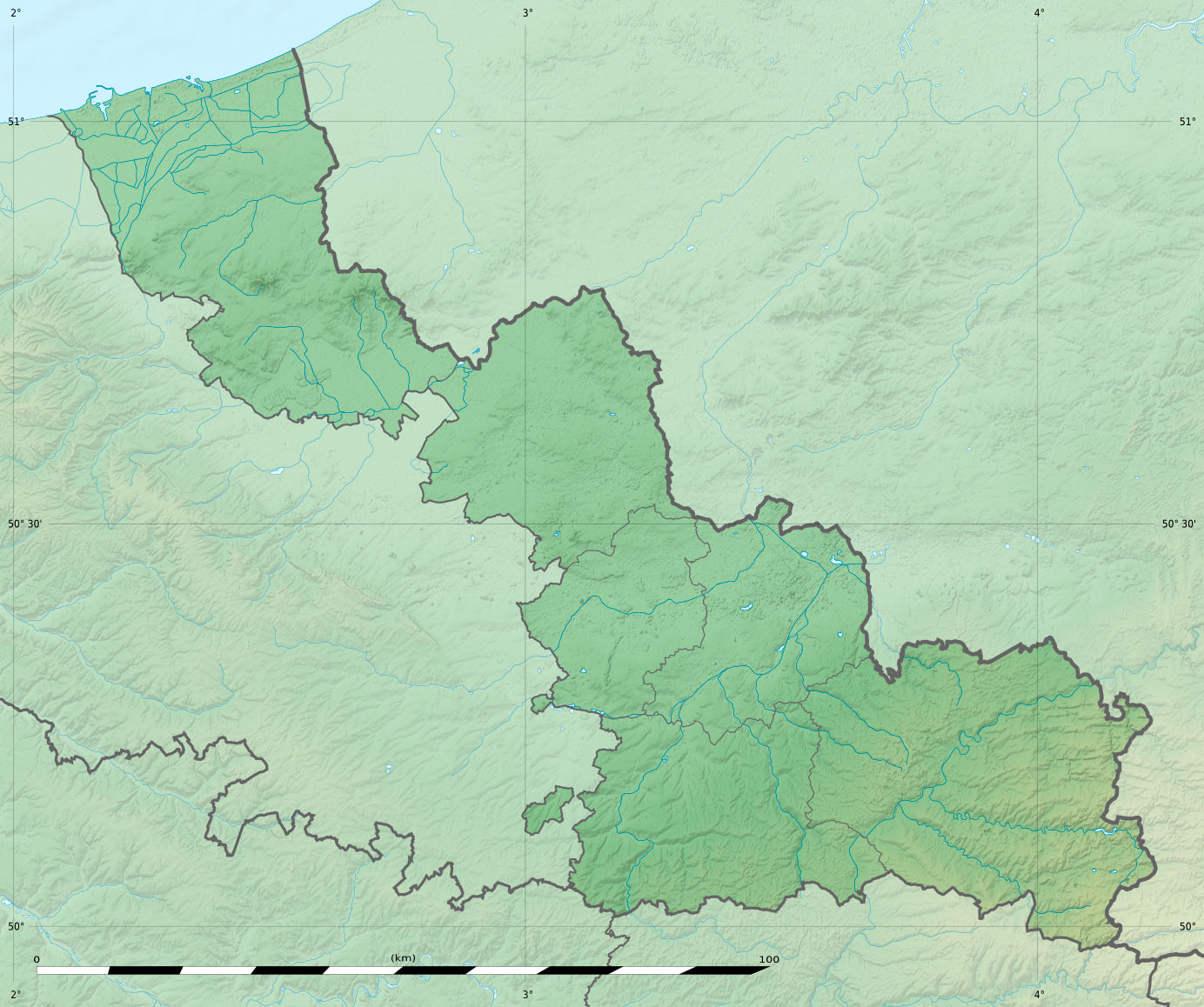 Blank physical map of the department of Nord, France, for geo-location purpose, with distinct boundaries for regions, departments and arrondissements.